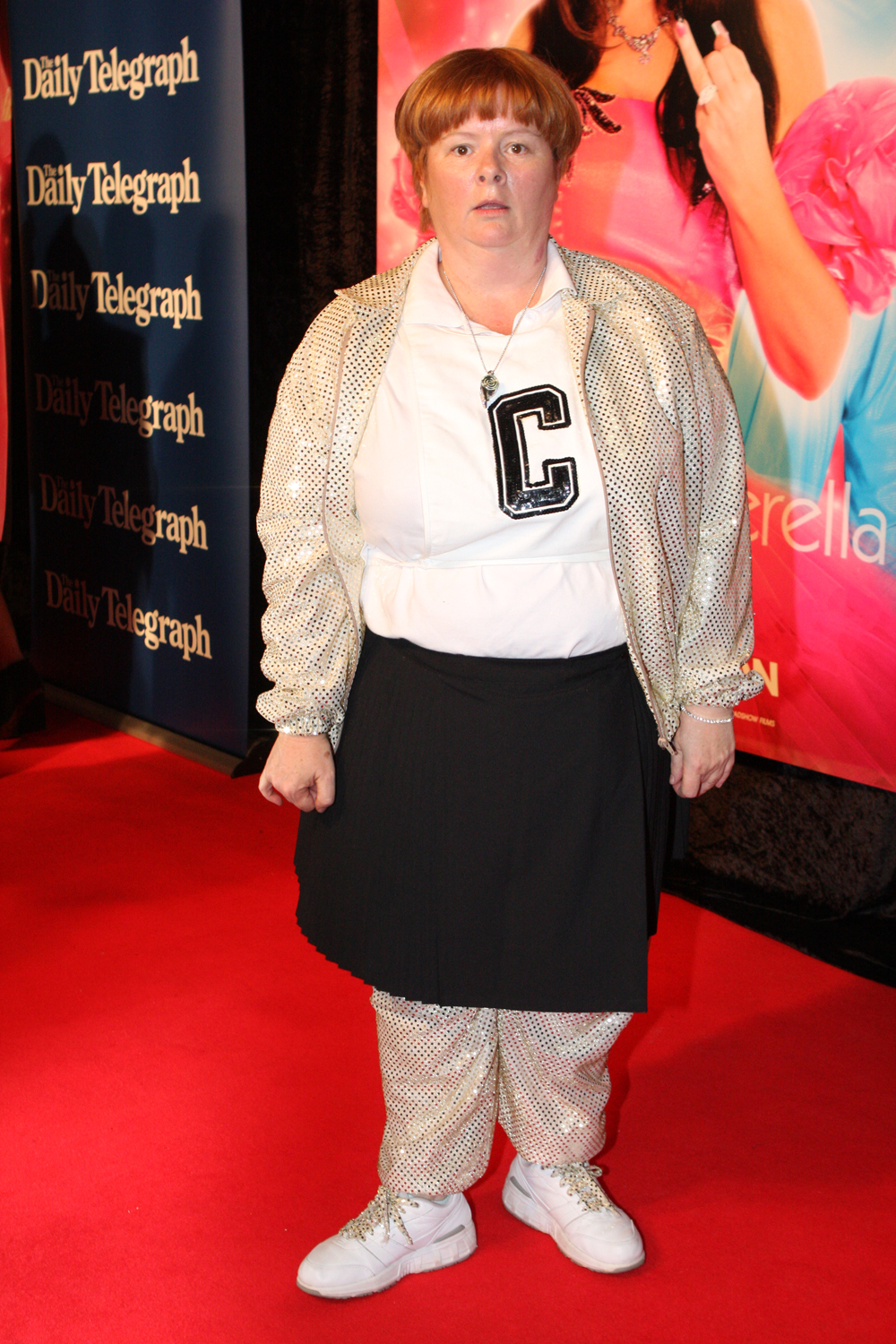 Magda Szubanski (in character) at the Kath & Kimderella movie premiere at Entertainment Quarter; Sydney, Australia